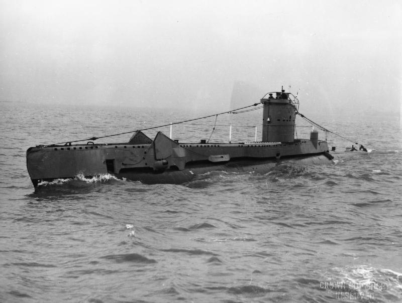 British U class submarine HMSM UPSTART underway.